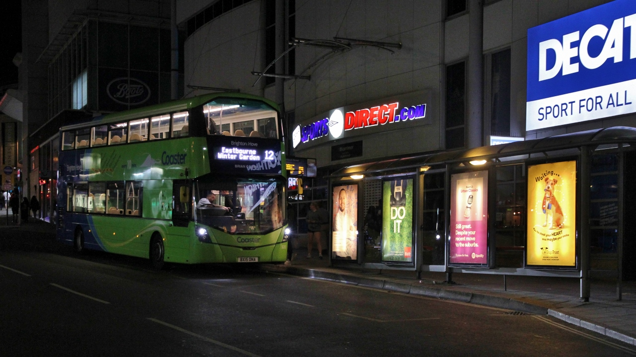 A Brighton & Hove bus on route 12 at a stop in North Street, Brighton, at night. The bus is a Mercedes-Benz with Wright StreetDeck body, registration mark BX15 ONA, fleet number 926, named Brian Cobby.